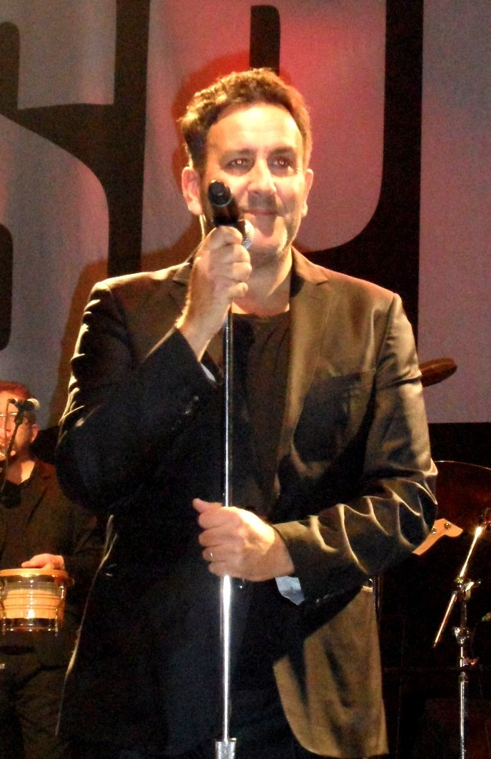 Performing with The Specials at the Vic Theatre in Chicago, IL March 11, 2013